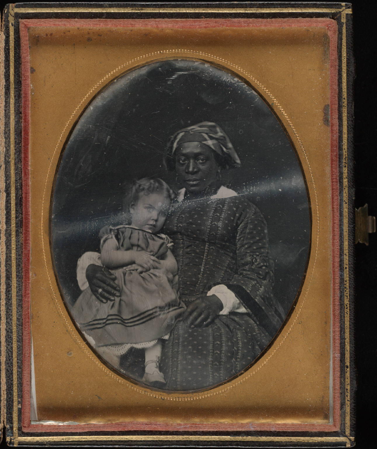 Daguerreotype portrait of African-American nanny with white child on her lap by an unknown photographer, circa 1855. Courtesy of the Randolph Linsly Simpson African-American Collection, Beinecke Rare Book & Manuscript Library, Yale University.[1]